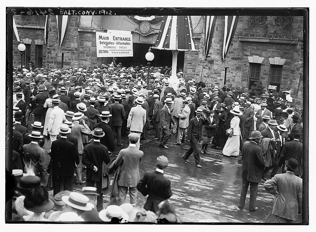 Bain News Service,, publisher. Balt. Conv. 1912 1912 (date created or published later by Bain) 1 negative : glass ; 5 x 7 in. or smaller. Notes: Title from unverified data provided by the Bain News Service on the negatives or caption cards. Photo taken at the 1912 Democratic National Convention held at the Fifth Regiment Armory, Baltimore, Maryland, June 25-July 2. (Source: Flickr Commons project, 2008) Forms part of: George Grantham Bain Collection (Library of Congress). Subjects: Balt. Format: Glass negatives. Repository: Library of Congress, Prints and Photographs Division, Washington, D.C. 20540 USA, General information about the Bain Collection is available at Higher resolution image is available (Persistent URL): Call Number: LC-B2- 2416-3